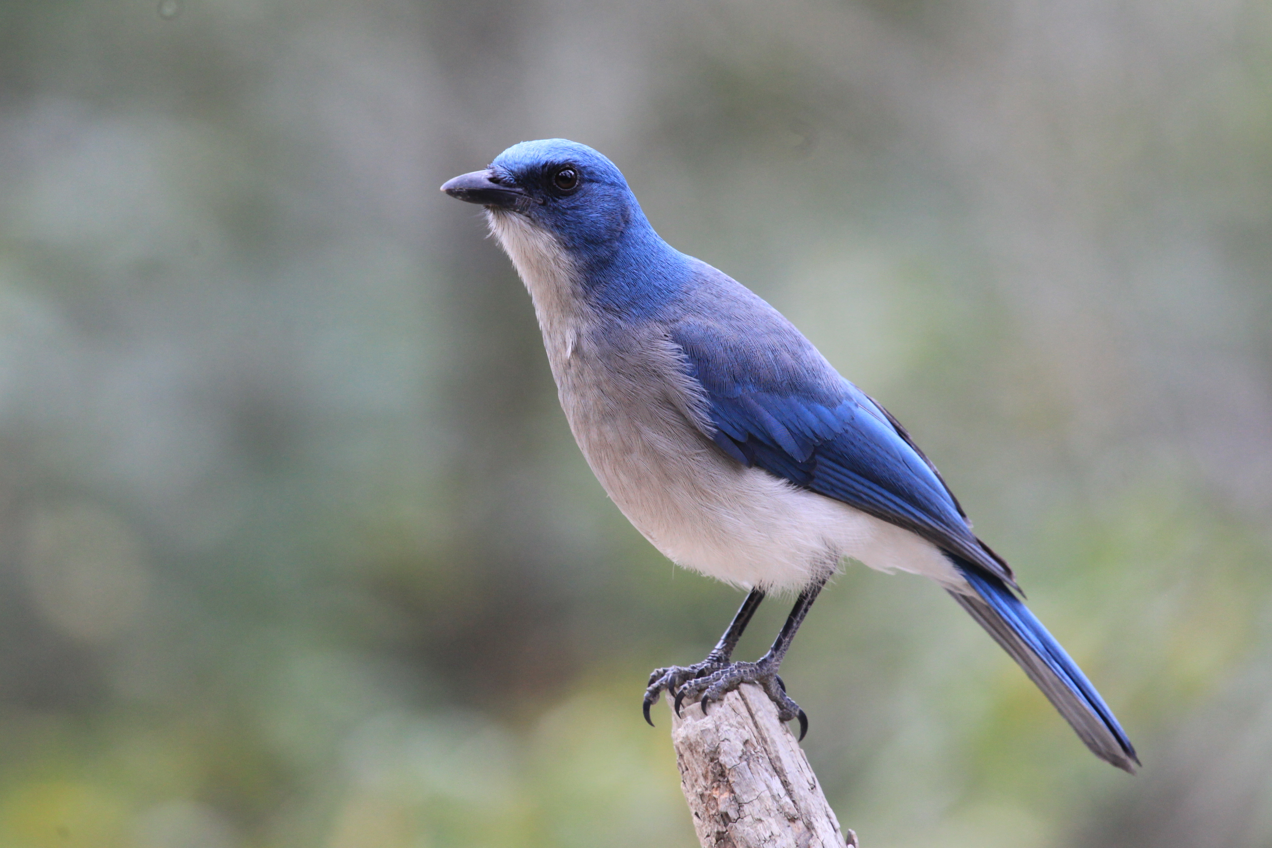 Chara pecho gris